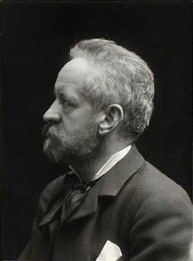 Otto Frederik Christian William Borchsenius (1844-1925), Danish writer and editor